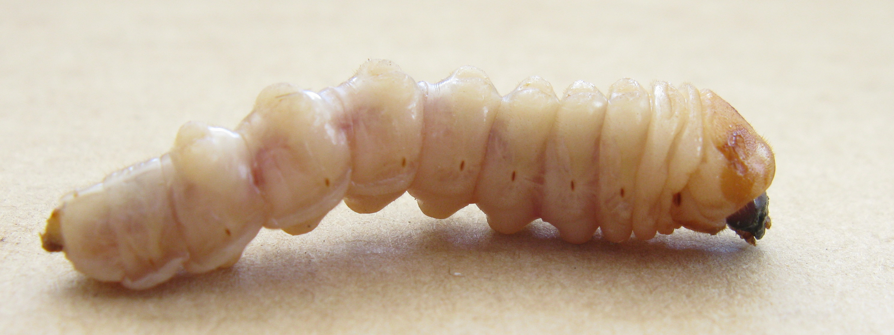 Larva of Phryneta spinator, a Southern African long-horned beetle, family Cerambycidae, Removed from its tunnel, crawling on swellings on the abdominal segments